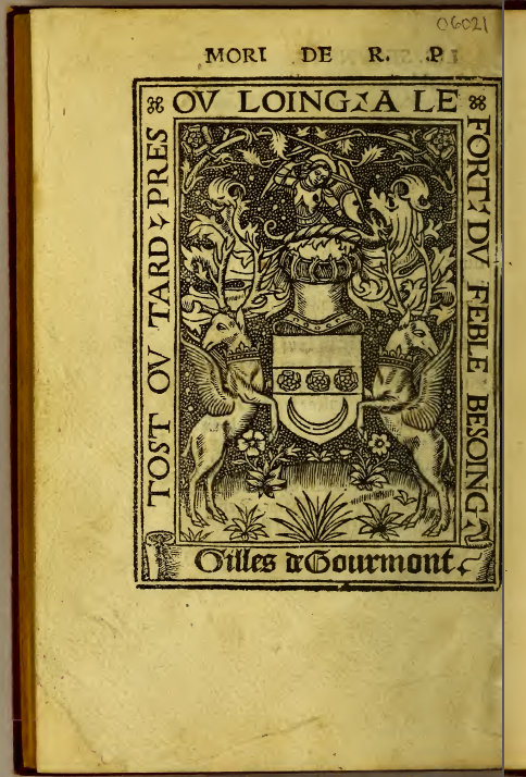 This the "marque d'imprimeur" of Gilles de Gourmont, as it was printed at the end of Thomas More's Utopia 1517 edition (Gilles de Gourmont, Paris)